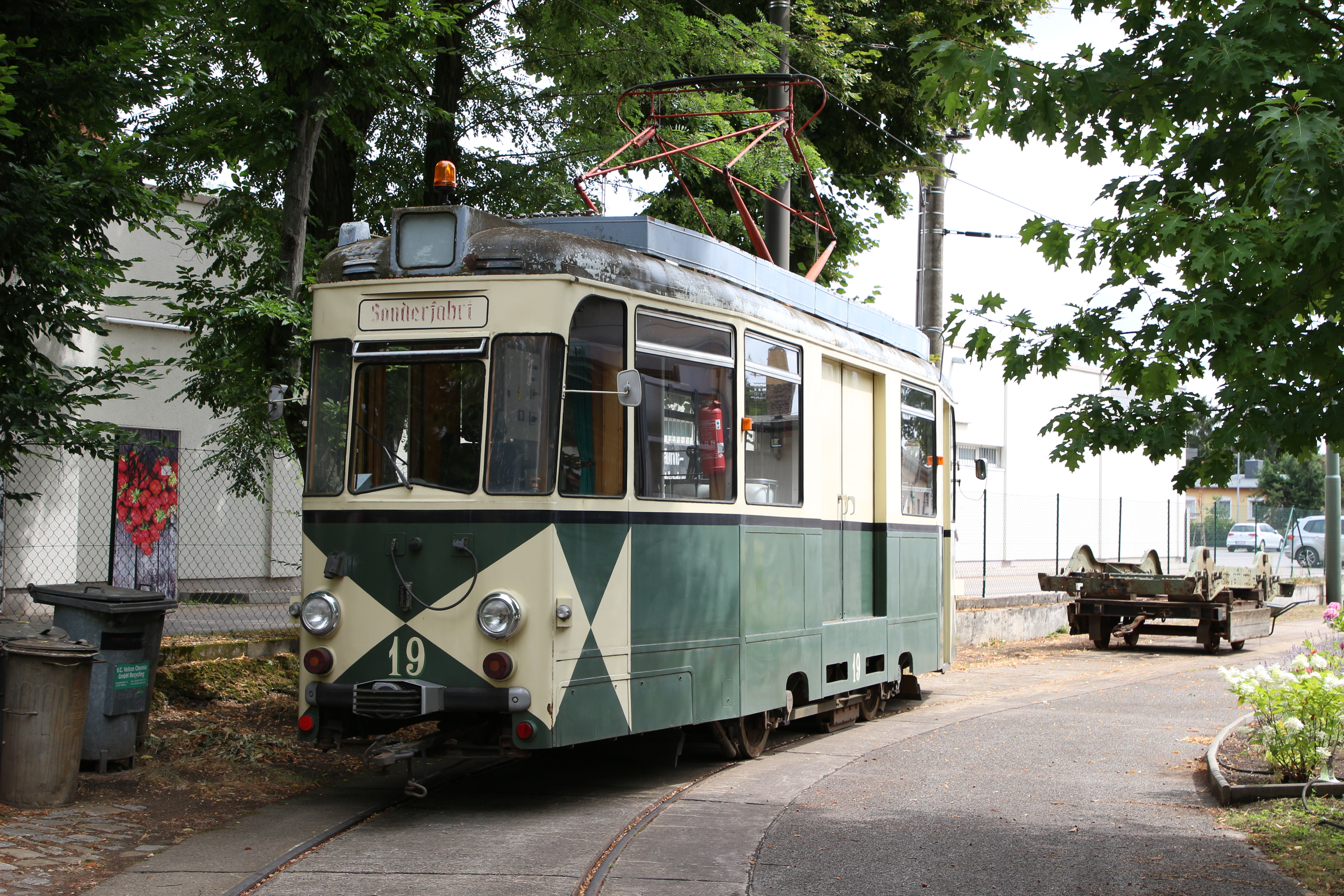 The works car of the Woltersdorf Strassenbahn - Tram number 19